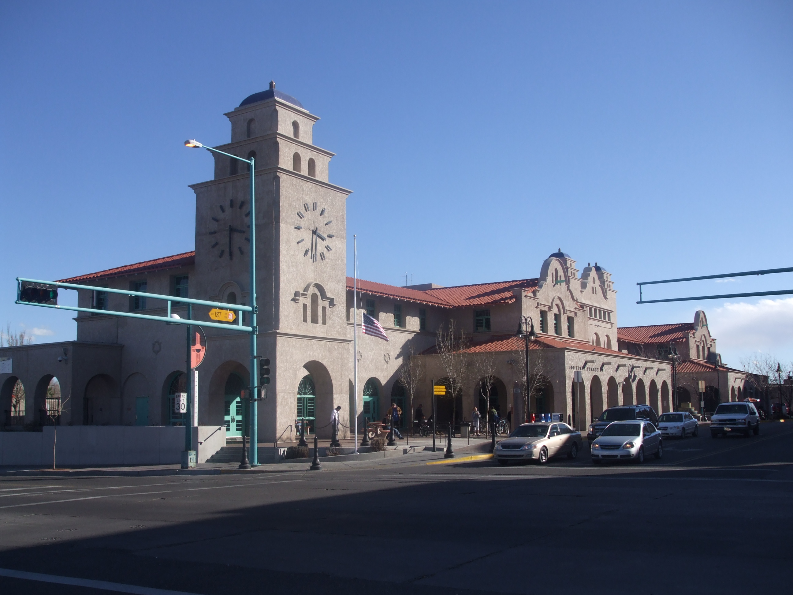 Frontage of the Alvarado transportation hub, formerly the site of the Alvarado Hotel. Downtown Albuquerque Rail Runner Express station is immediately to the rear, whilst the Amtrak station is some way to the south of here.